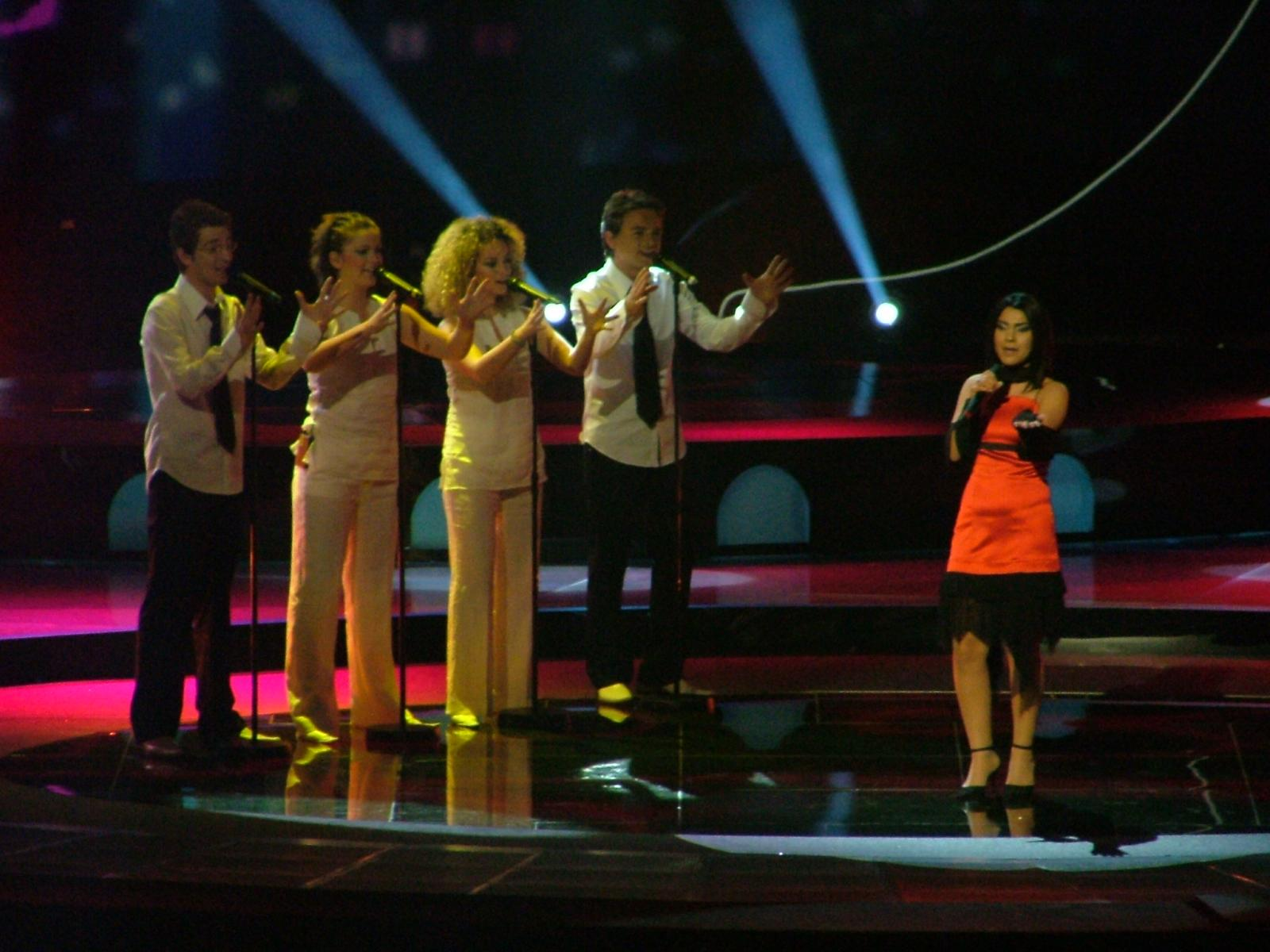 Anjeza Shahini at the final of the Eurovision Song Contest 2004, representing Albania with "The Image of You"